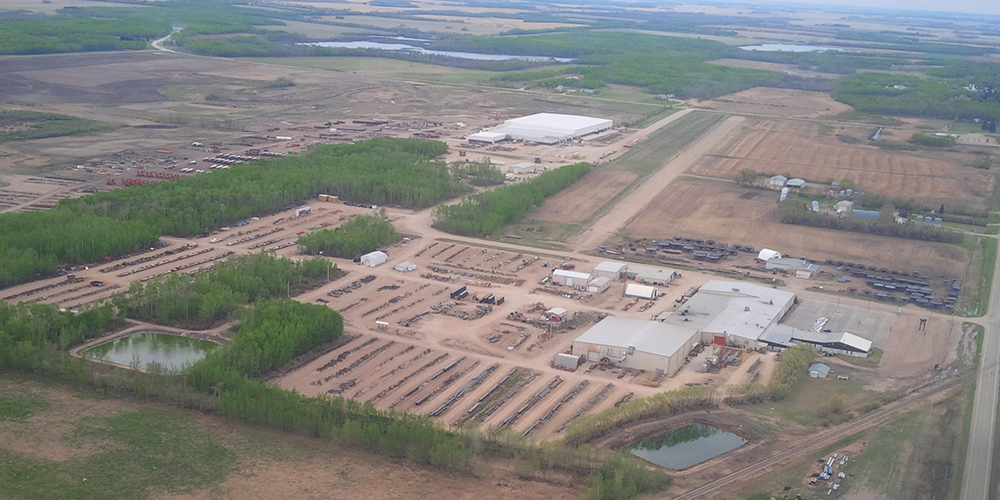 Aerial View of Bourgault Industries Ltd., St. Brieux Saskatchewan Canada